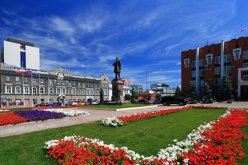 Stolypin's Square, Saratov